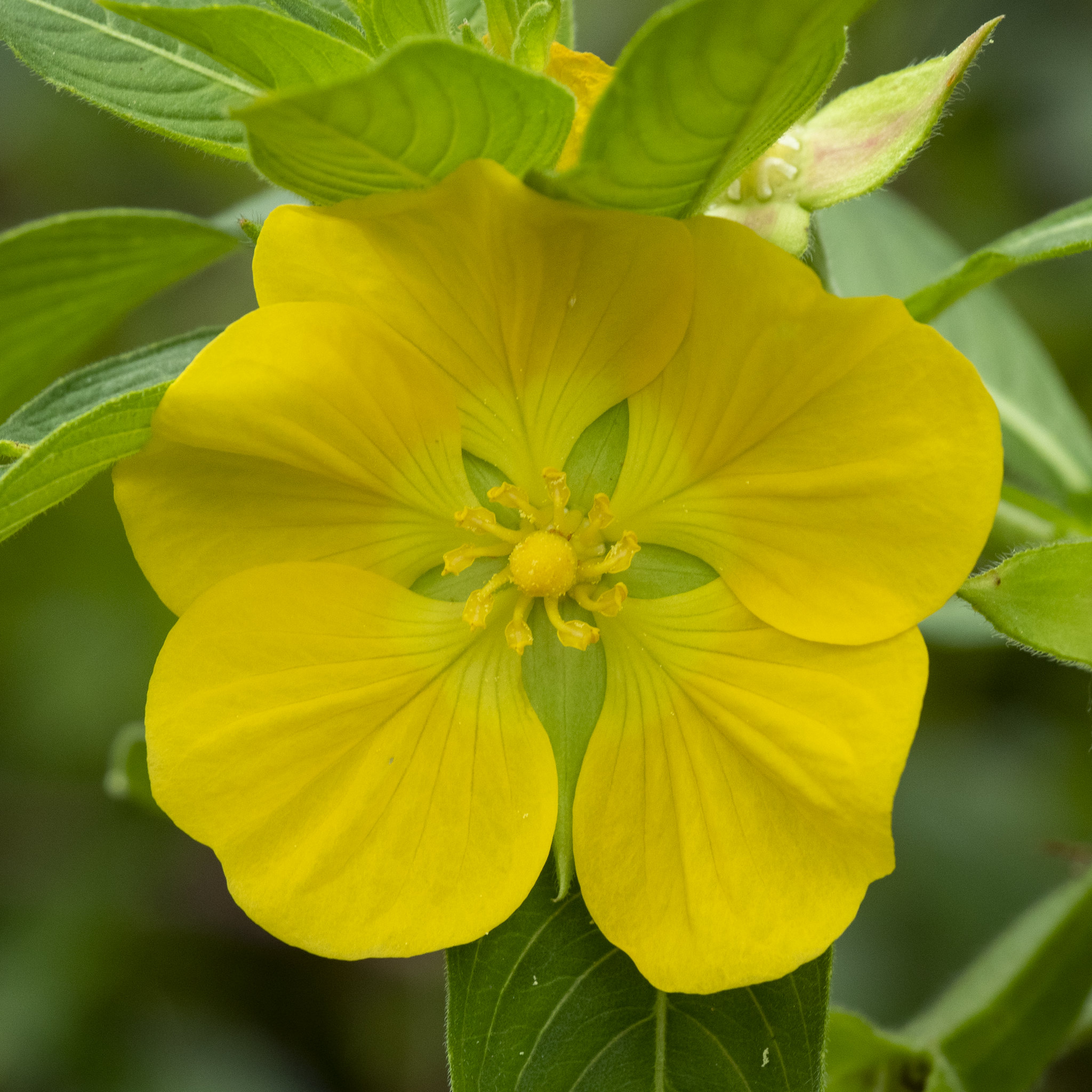 Flower from the Ludwigia grandiflora found in the Lower Hillsborough Wilderness Preserve along the border Pasco and Hillsborough Counties. Consulted with a professional botanist on the identification of this flower, however I did not have images of the whole plant, so it may be the wrong species.